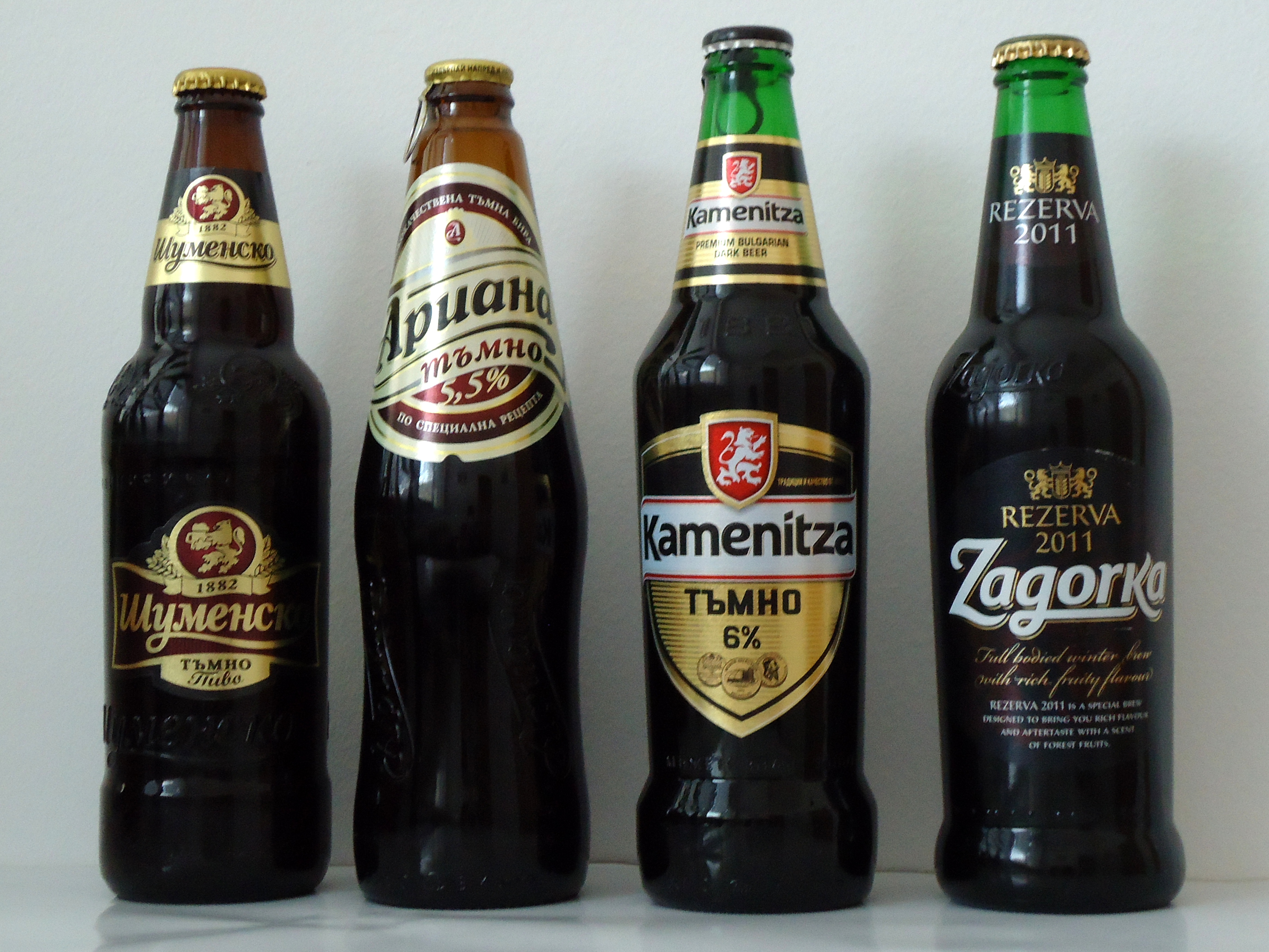 Bulgarian Dark Beers